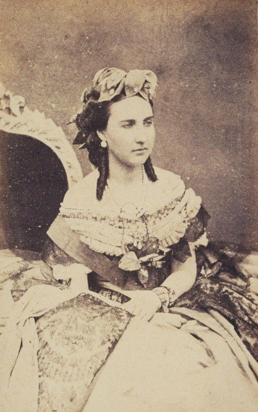 Empress Carlota of Mexico ca1864-1866